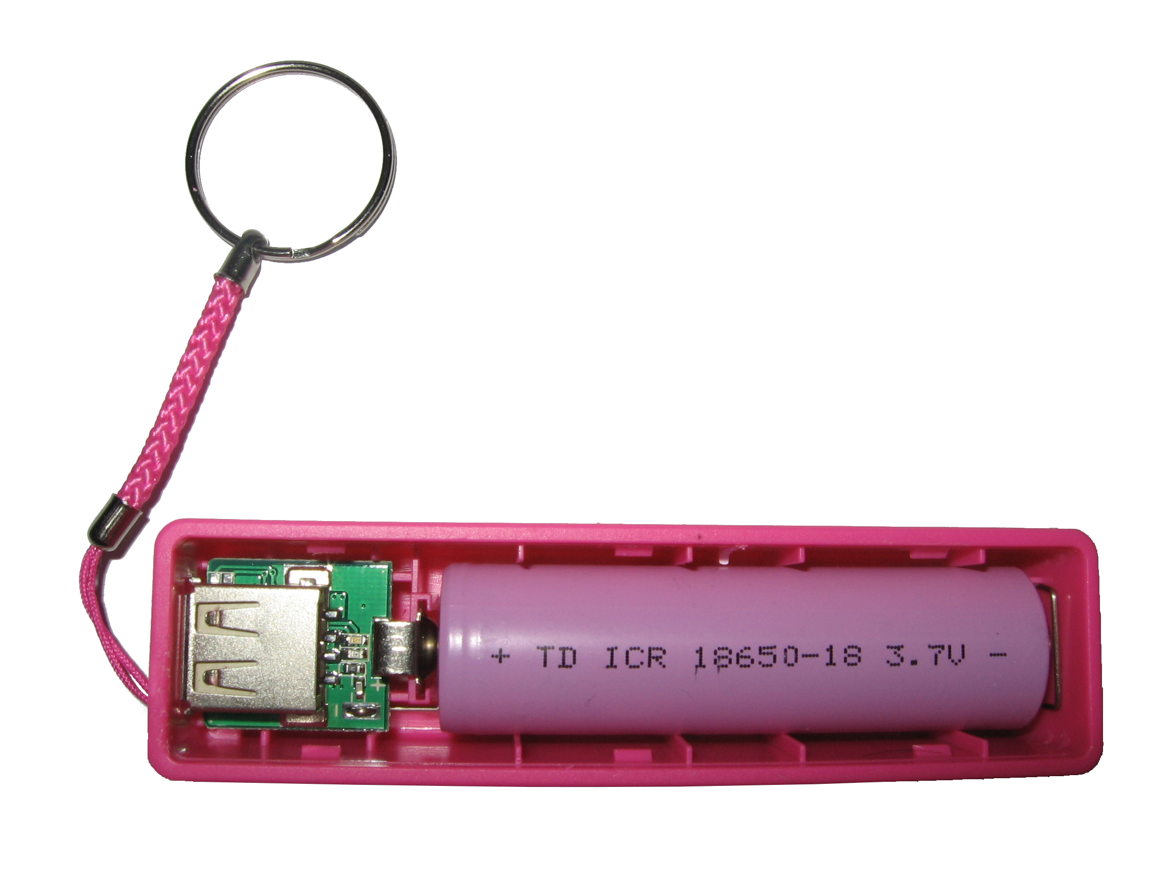 Powerbank, pink, no cover.